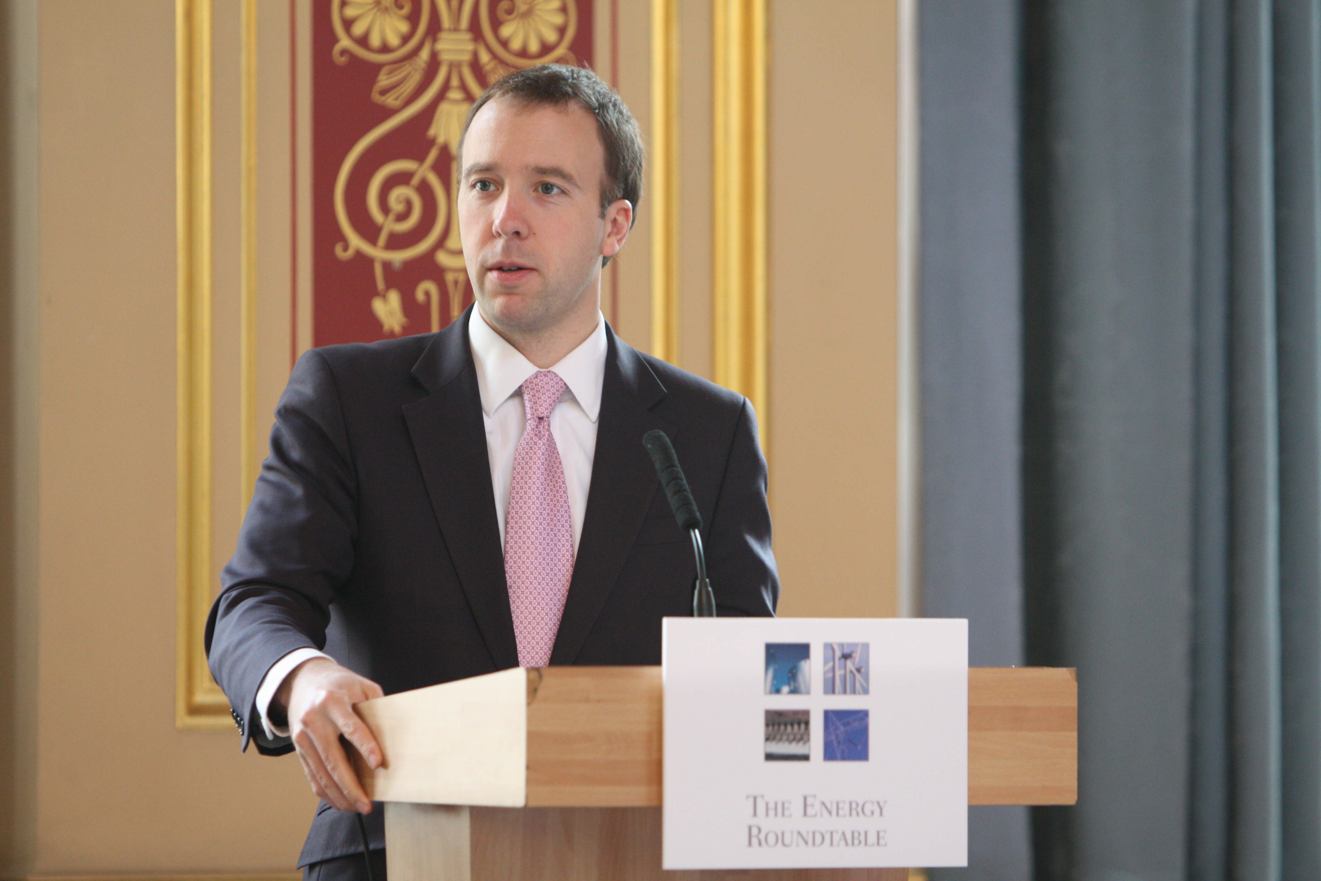 Minister of State for Energy Matthew Hancock speaking at the 2014 Canada Europe Energy Summit in London, 18 November 2014.